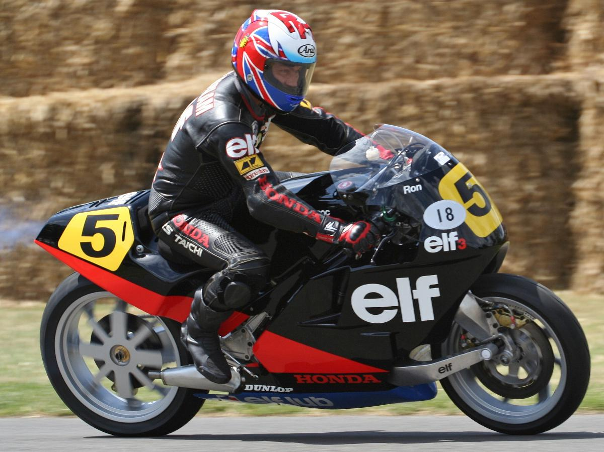 Ron Haslam in 2013, demonstrating the Elf Honda 500 he raced in the early 1980s